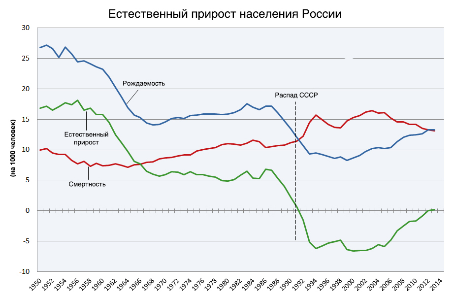 Natural population growth trends of Russia. Data source: Demoscope death rates, Demoscope birth rates, Rosstat